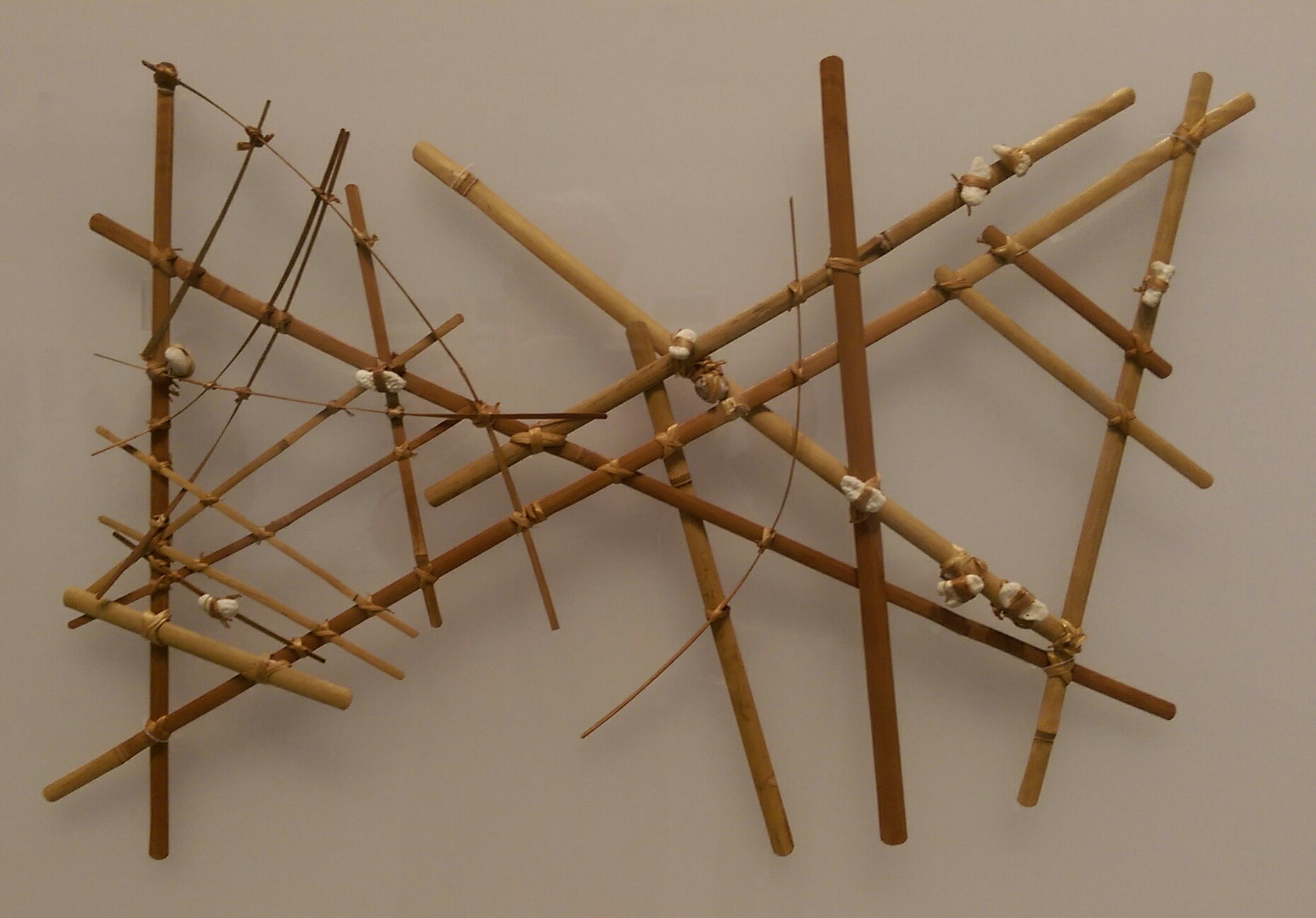 A navigational chart from the Marshall Islands, on display at the Berkeley Art Museum and Pacific Film Archive. It is made of wood, sennit fiber and cowrie shells. From the collection of the Phoebe A. Hearst Museum of Anthropology at the University of California, Berkeley. Date not known. Photo by Jim Heaphy.